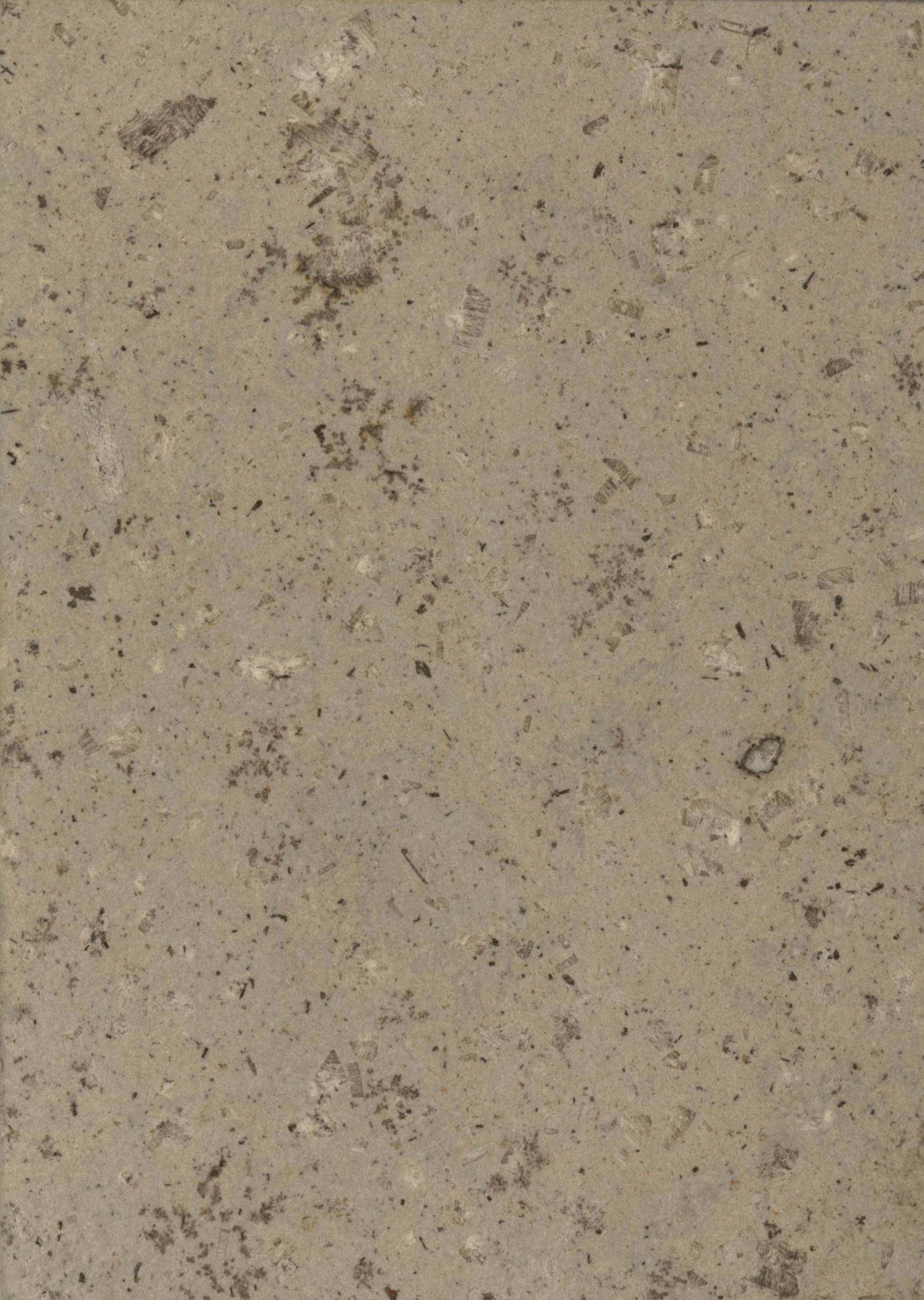 trachyte Valkeřice (Czech Republic)